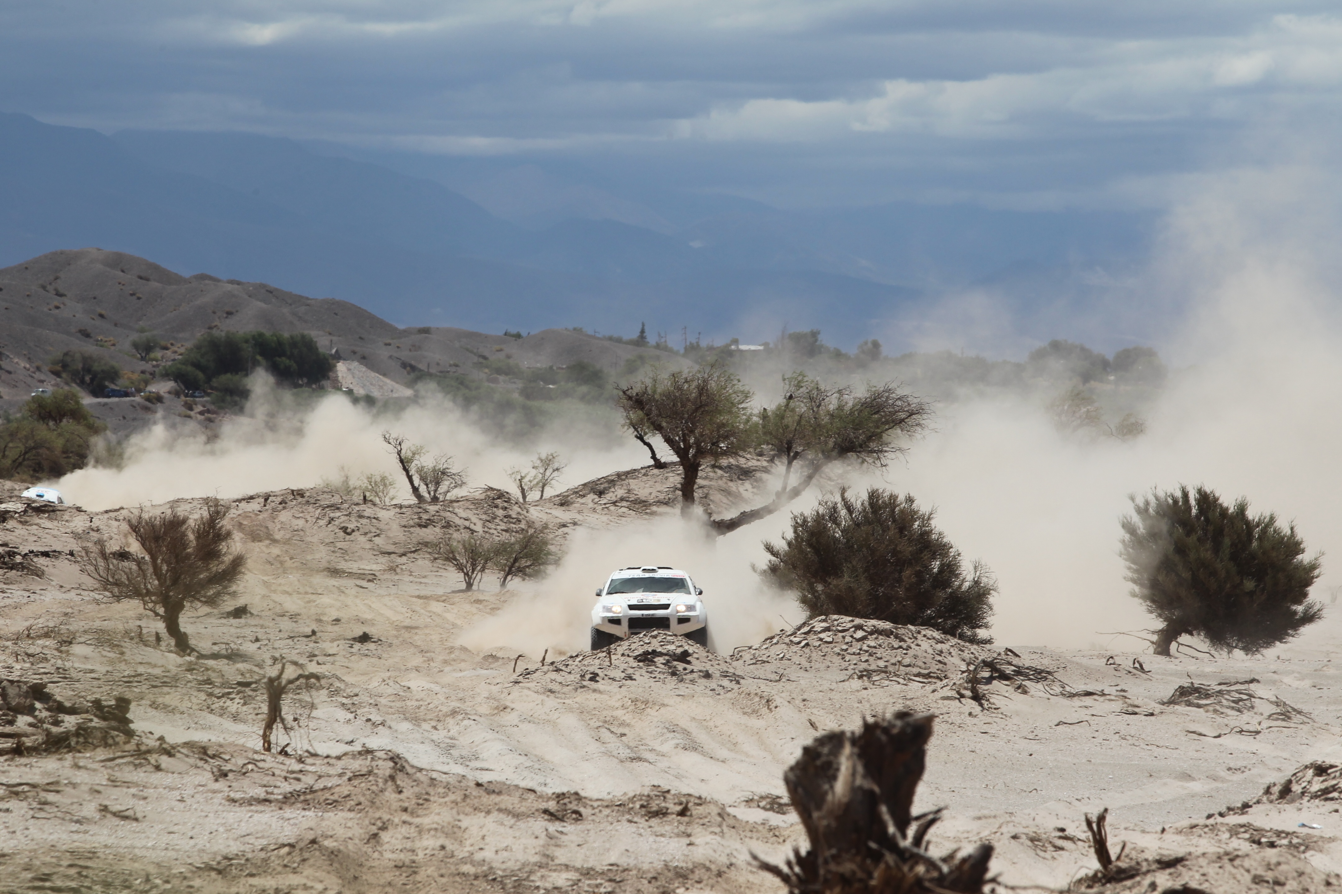 OSCar eO in "fesh-fesh" sand.